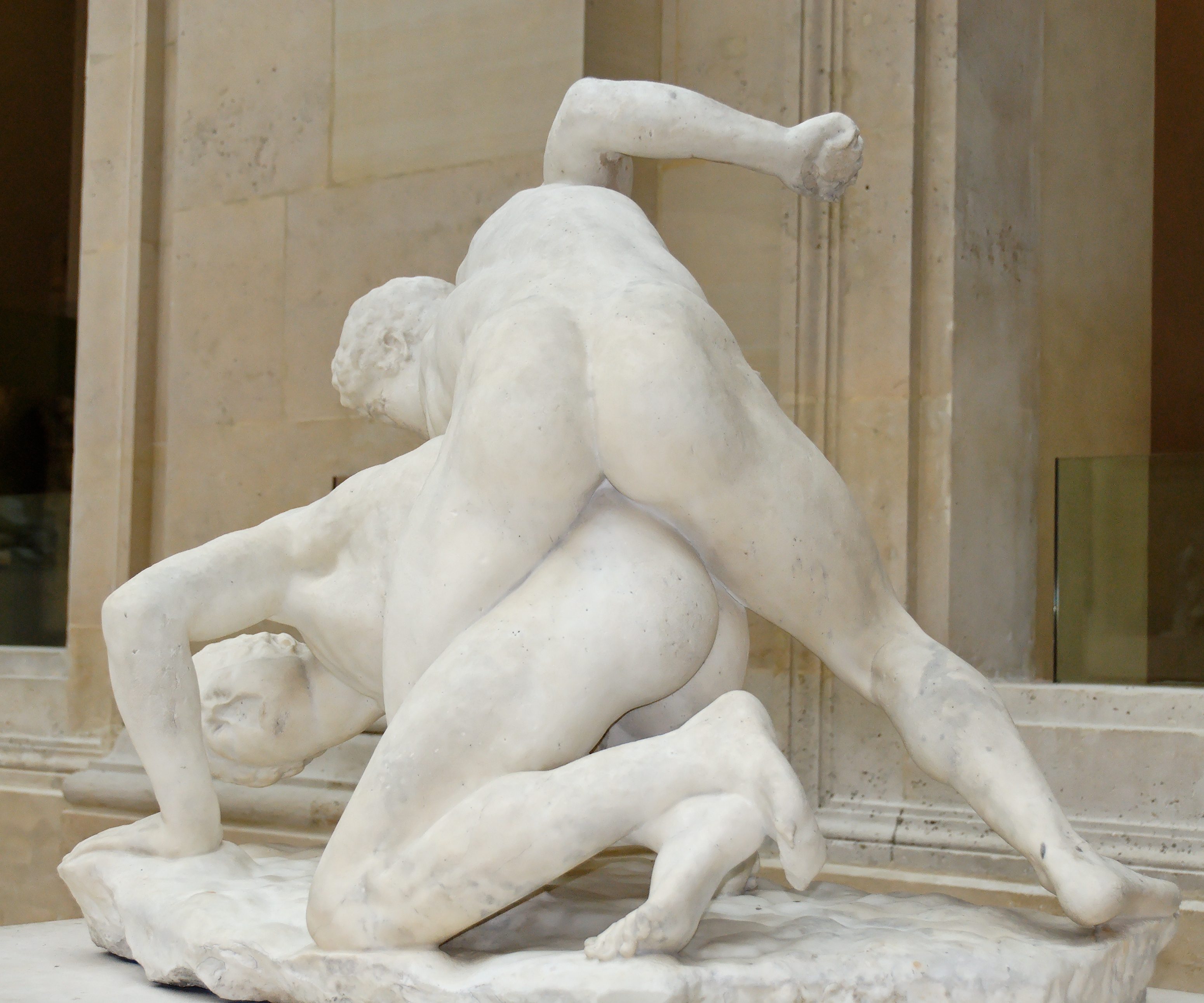 Copy of the celebrated group of the “Uffizi wrestlers”, stored in the Galleria degli Uffizi in Florence, Italy. Marble, 1684–1688. The statue was first installed in the park of Versailles, then transferred in 1689 to the park of Marly and in 1797 to the Tuileries Gardens.